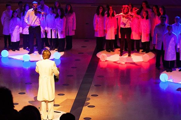 Neil Harbisson conducting musicians with colour.